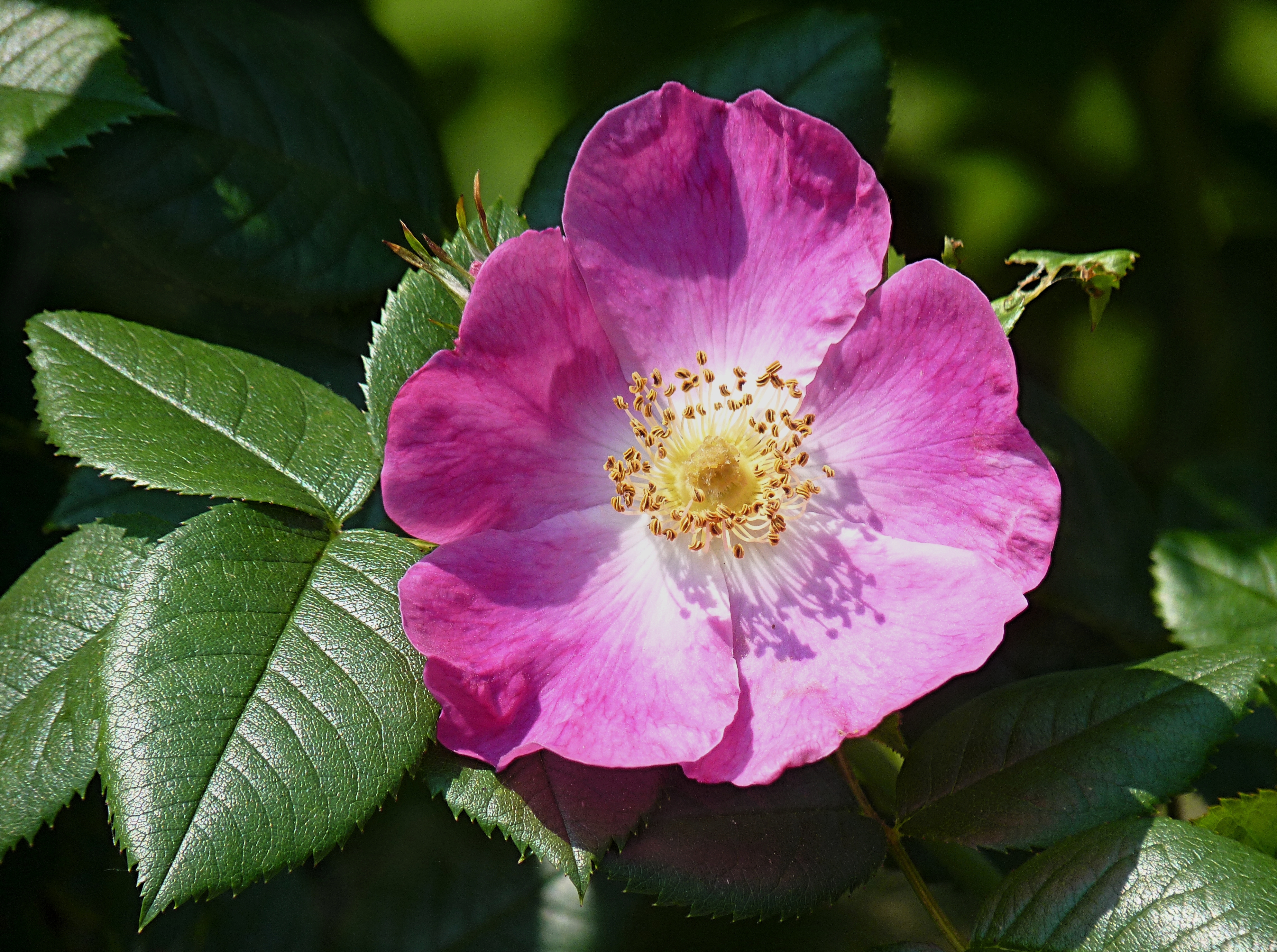 Rosa 'Kiese' Hybrid canina, in the international rose garden of Kortrijk, Belgium.